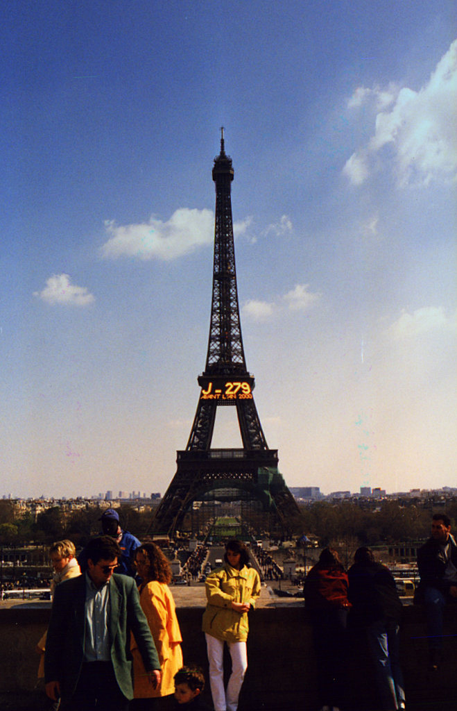 Countdown to the year 2000 - 279 days to go!